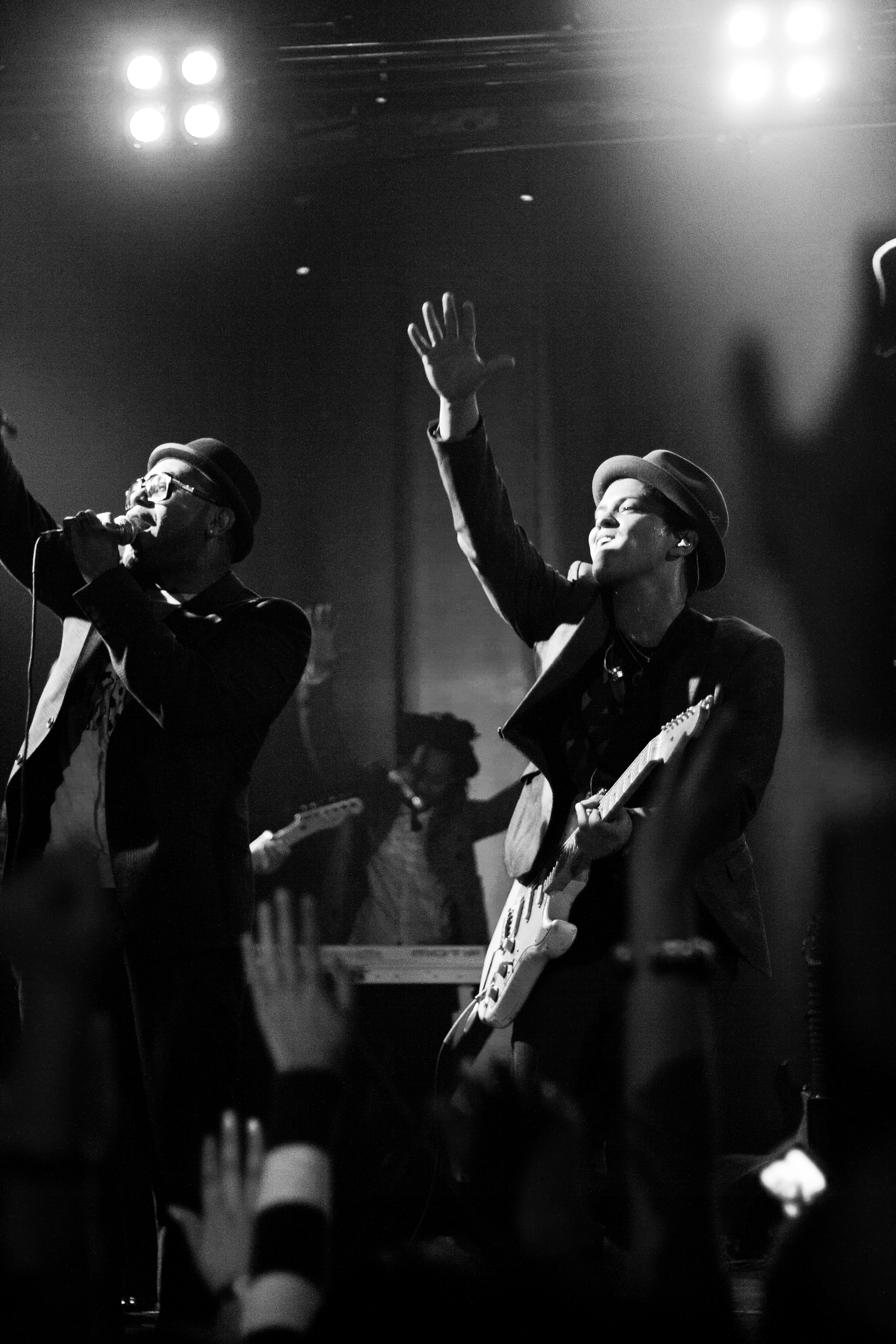 Warehouse Live